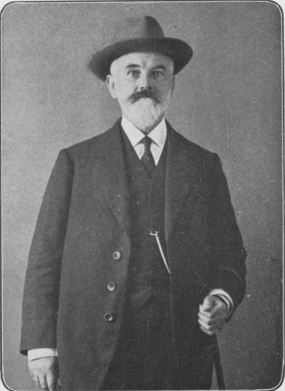 name W. P. G. HELSDINGEN.. political affiliationSocial Democratic Workers' Party